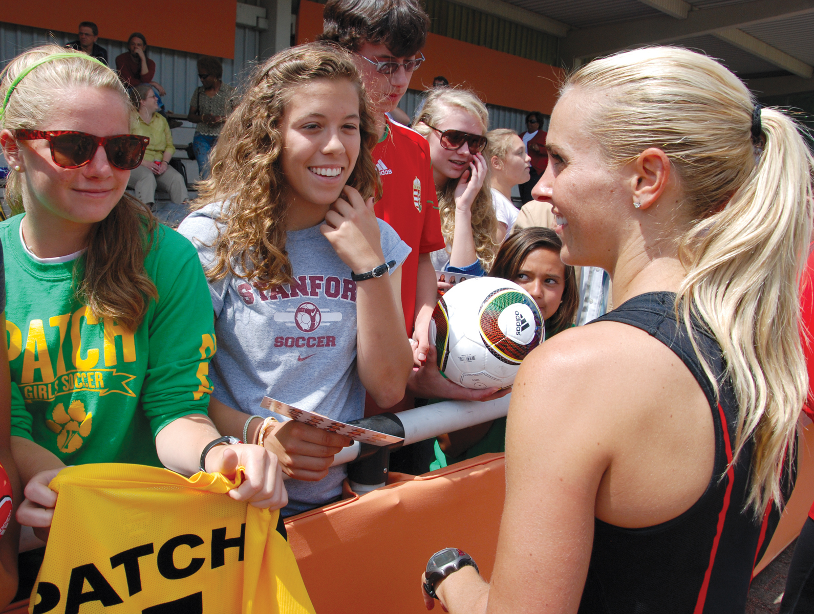 Patch High School soccer players Sydney Baer (from left) and Emma Murray meet Heather Mitts, a U.S. Women's National Team defender, during an open practice June 30, 2011, in Heidelberg, Germany.